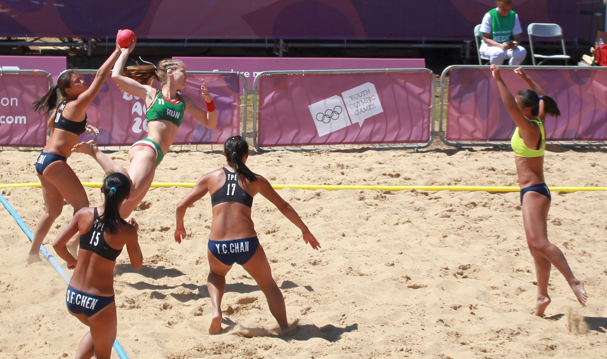 Beach handball at the 2018 Summer Youth Olympics at 10 October 2018 – Girls Preliminary Round Group A – Hungary-Chinese Taipei 2:0